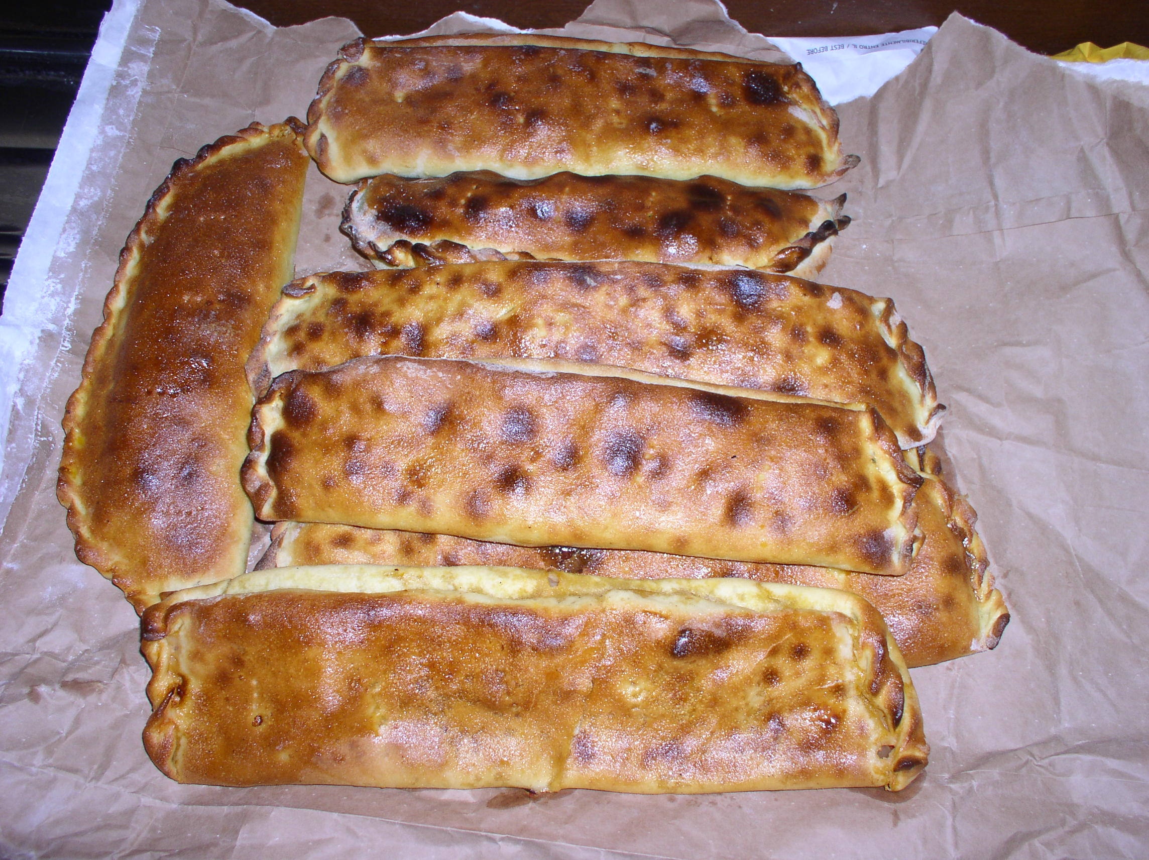 Scacciata ,a typical Sicilian food